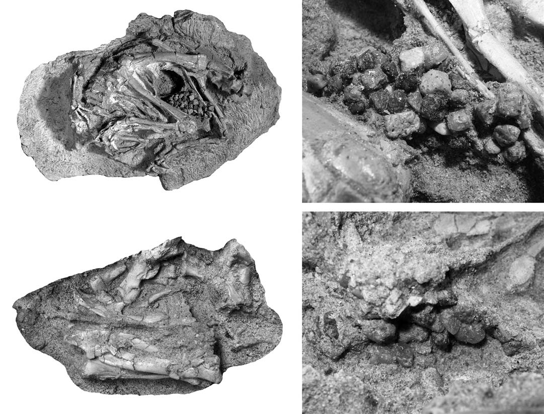 The ornithopod dinosaur Gasparinisaura cincosaltensis Coria and Salgado, 1996 from the Late Cretaceous Anacleto Formation of Patagonia, MCSPv 111 (A) and MCSPv 112 (B). A1, nearly complete postcranial skeleton in left lateral view; A2, cluster of gastroliths in the abdominal cavity; B1, nearly complete skeleton in dorsal view; B2, the largest cluster of gastroliths below the last dorsal vertebra.